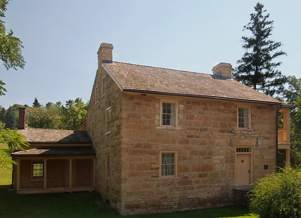 Henry H. Sibley House, Mendota, Minnesota, USA